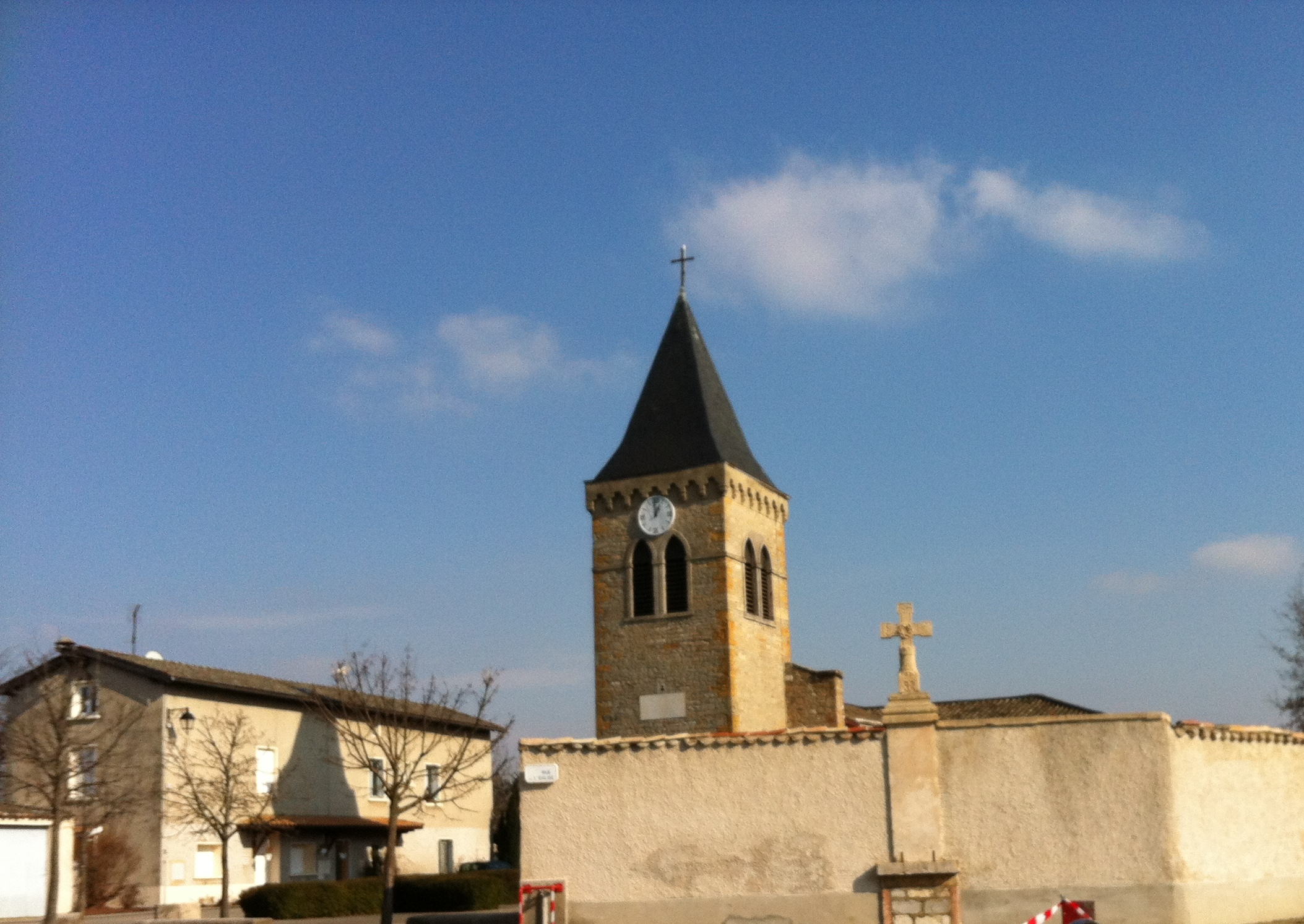 Church of Neyron.